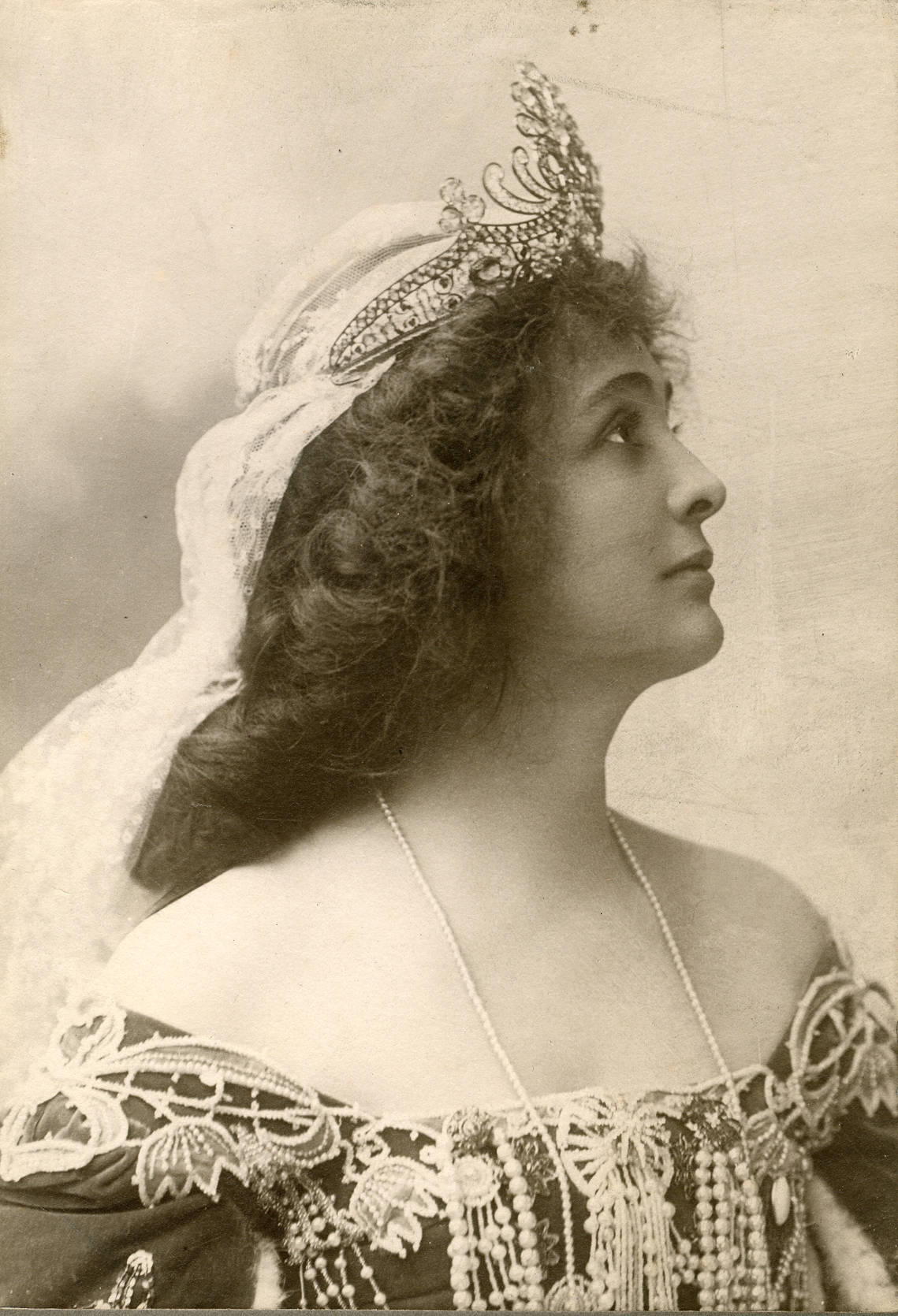 Roselle Knott, stage actress Subjects: actresses